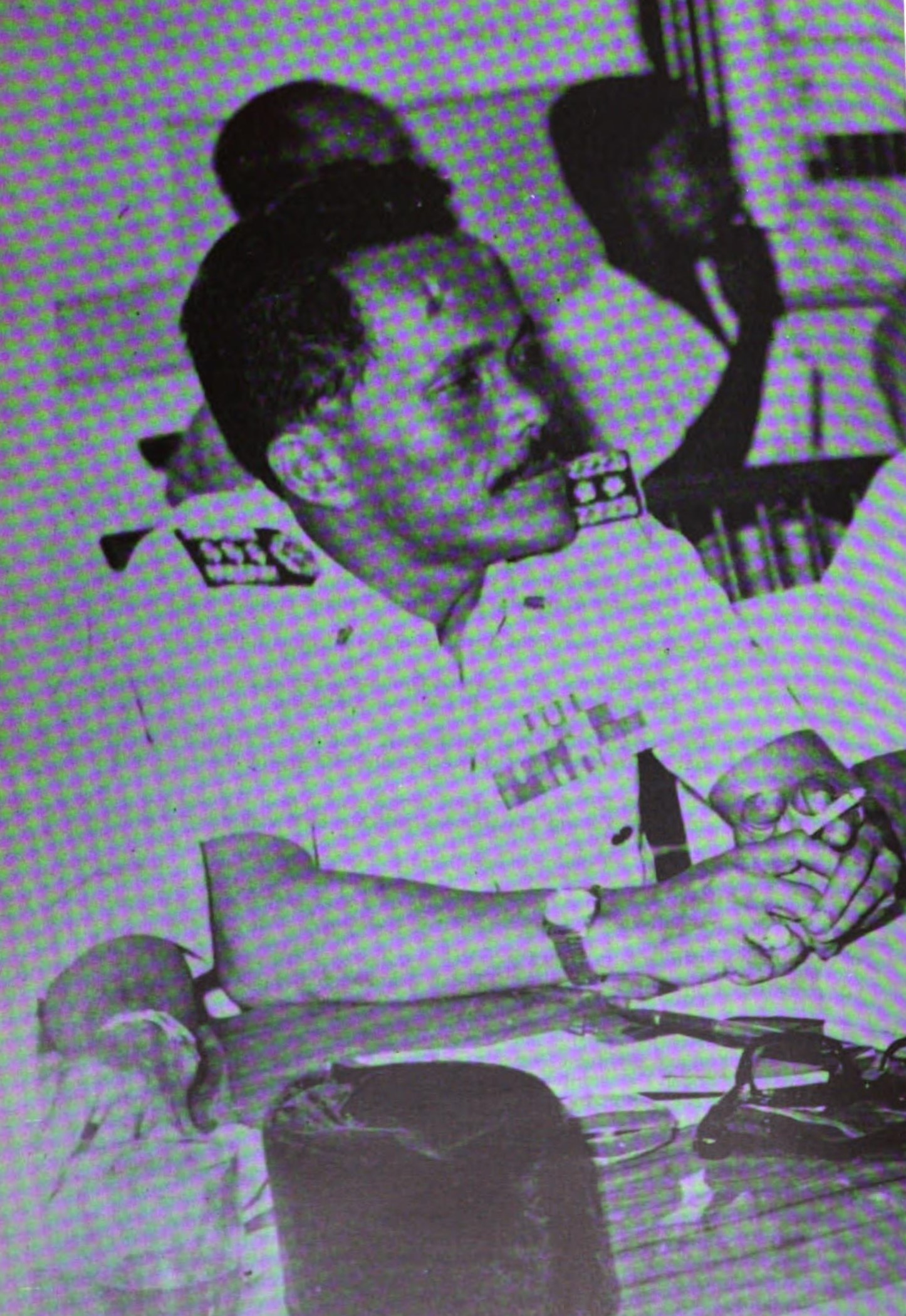 Mayor of Pematang Siantar Laurimba Saragih